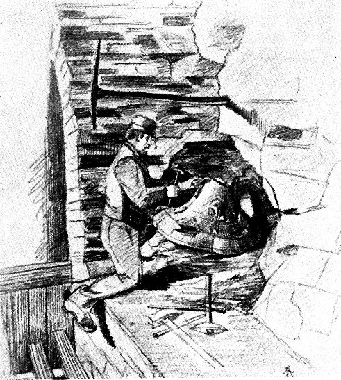 Nidaros Cathedral, Trondheim, Norway. Remains of the original baptismal font is excavated from a wall during the restoration. Drawing by Alf Hofflund c. 1890.